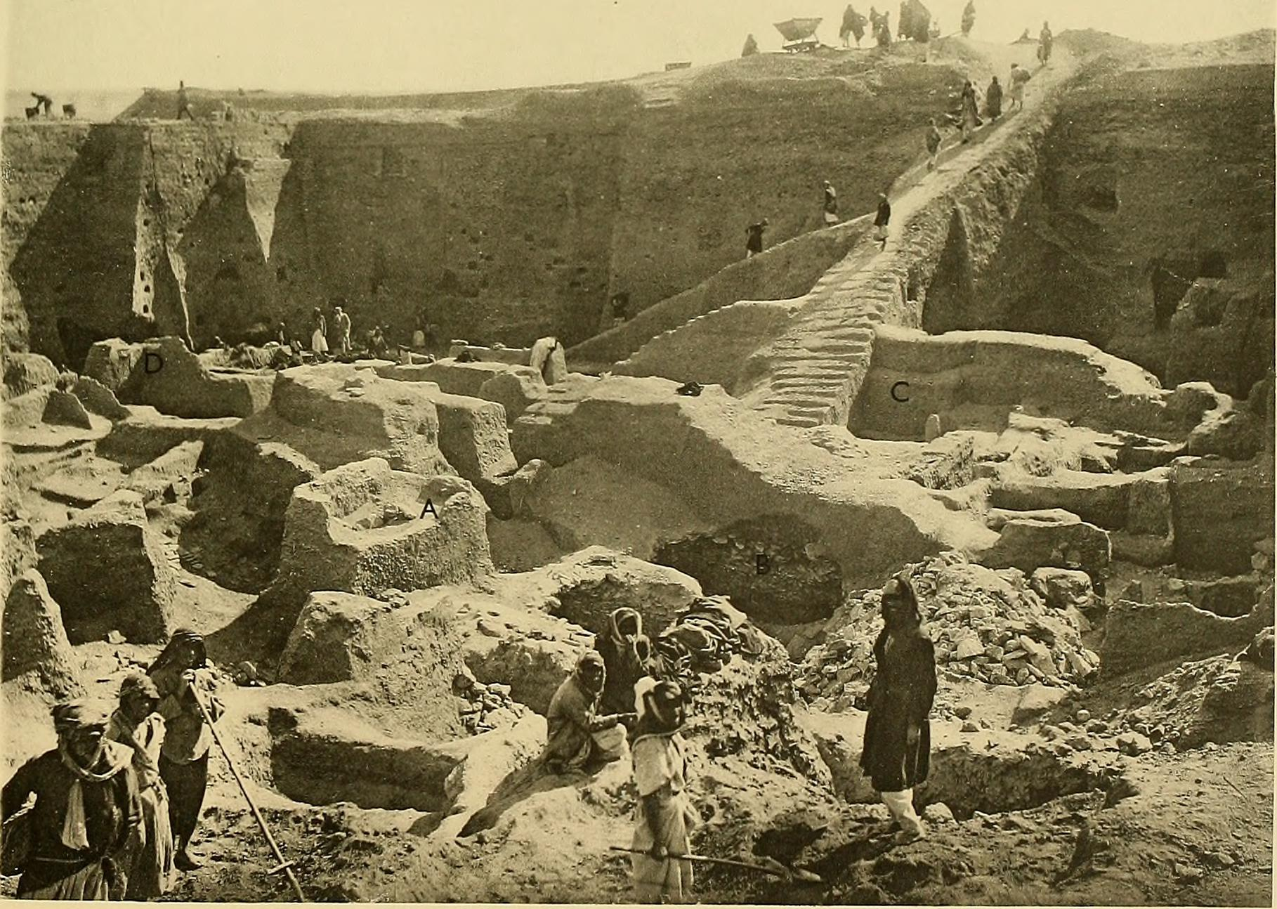 Title: Ur excavations Year: 1900 (1900s) Authors: Joint Expedition of the British Museum and of the Museum of the University of Pennsylvania to Mesopotamia Hall, H. R. (Harry Reginald), 1873-1930, ed Woolley, Leonard, Sir, 1880-1960 Legrain, Leon, 1878- ed Subjects: Publisher: (n.p.) Pub. for the Trustees of the Two Museums by the aid of a grant from the Carnegie Corporation of New York Text Appearing Before Image: a. THE sw. END OF THE EXCAVATioxs, i)i-(i:Mi;i:i; nj^s, ~ii \\ iN(, (,kA\i:s at different levels Text Appearing After Image: h. GENERAL VIEW OF THE CEMETERY EXCAVATIONS LOOKING SE. A = grave of Mes-kalam-dug, PG/7S5 C = the royal tomb, PG/10S4 B = the royal tomb, PG/779 D = the Great Death-pit, PG/1237 V. p. 4 PLATE